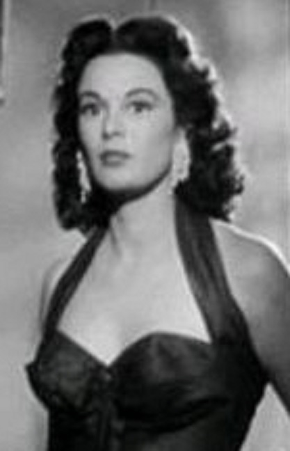 Screenshot of Patricia Medina from the film Plunder of the Sun